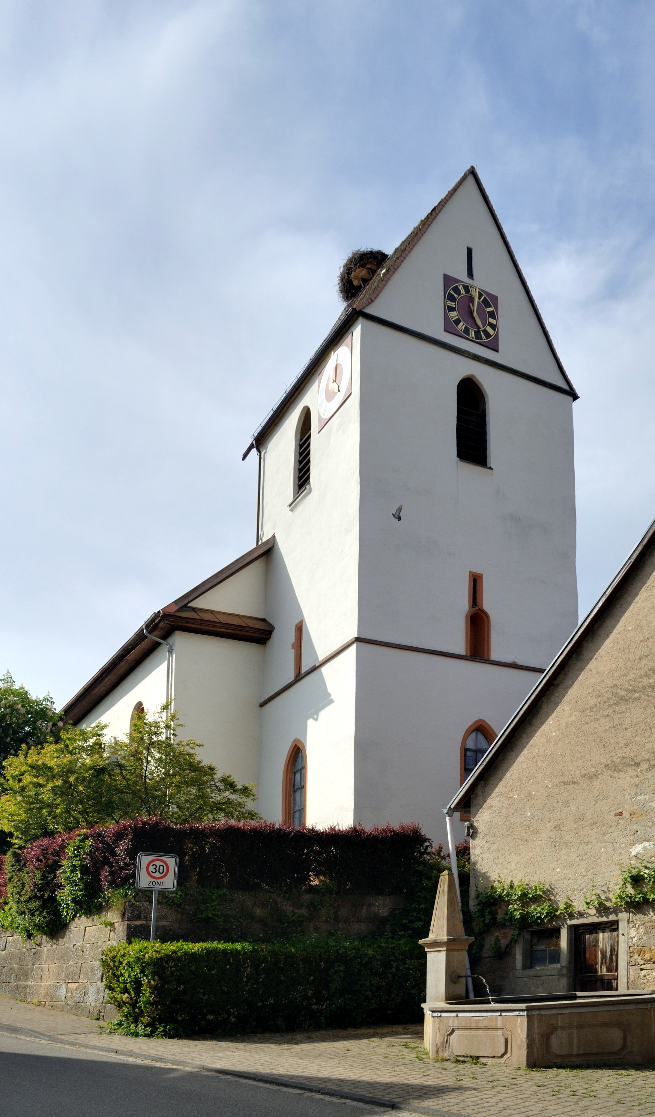 Mappach: Protestant Church